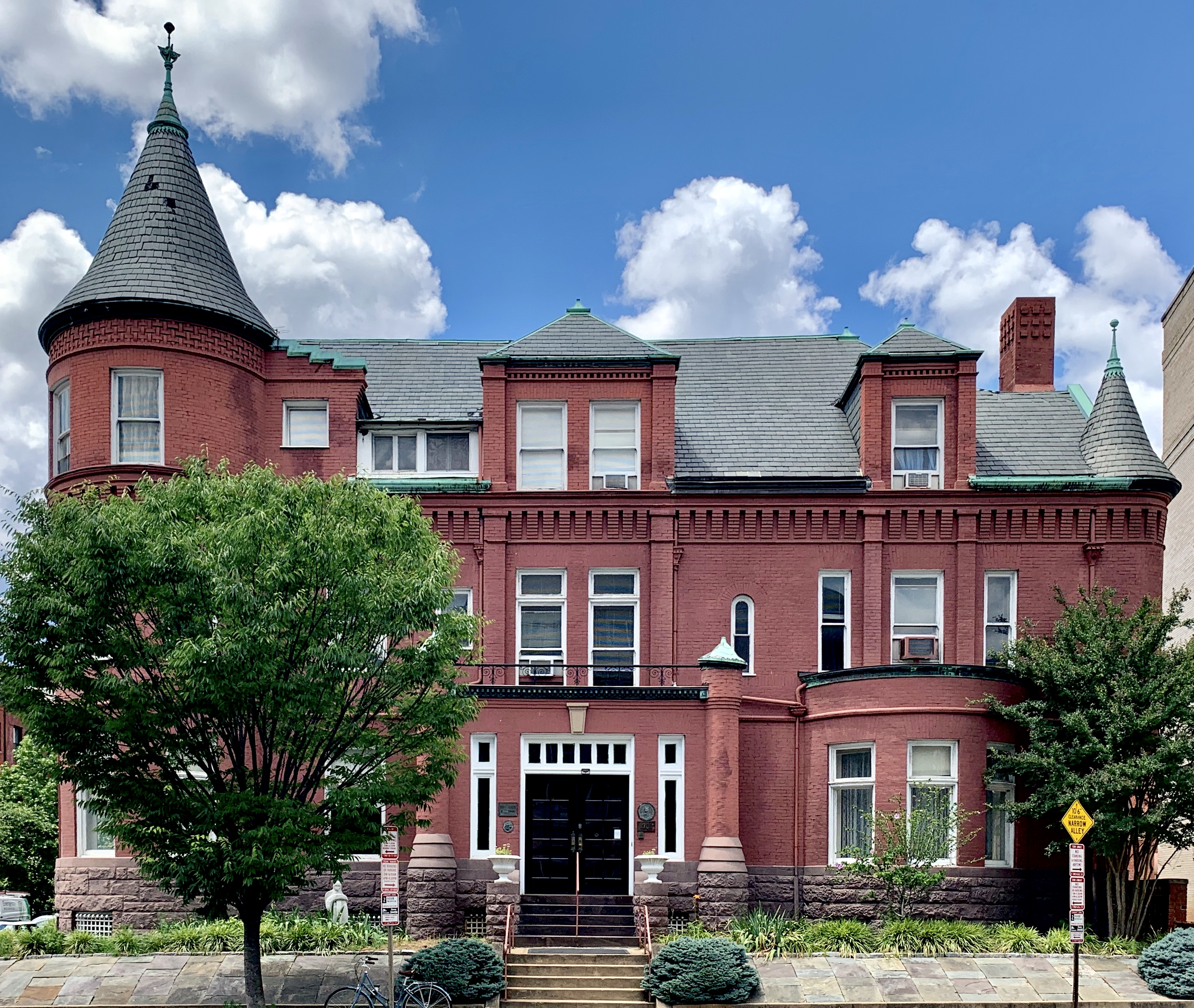 The National League of American Pen Women headquarters (also known as the Pen Arts Building) located at 1300 17th Street NW in the Dupont Circle neighborhood of Washington, D.C. It was built in 1887 and designed by William M. Poindexter. Previous owners include Sarah Adams Whittemore and Robert Todd Lincoln. The Pen Arts Building is a contributing property to the Dupont Circle Historic District.